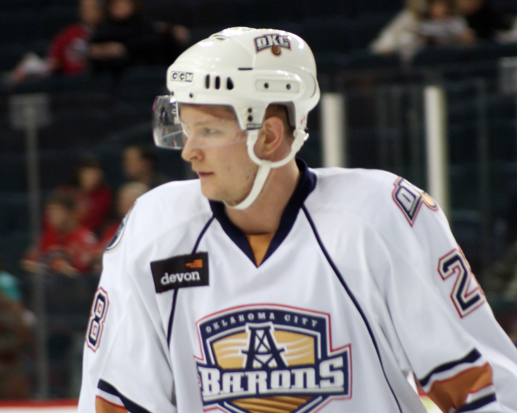 Johan Motin, born October 10, 1989 in Karlskog, Sweden is a Swedish professional ice hockey defenceman. He was selected by the Edmonton Oilers in the 4th round, 103rd overall, of the 2008 NHL Entry Draft. He has played in the National Hockey League (NHL) with the Edmonton Oilers. Photo was taken on February 18, 2011 prior to an American Hockey League (AHL) regular season game.